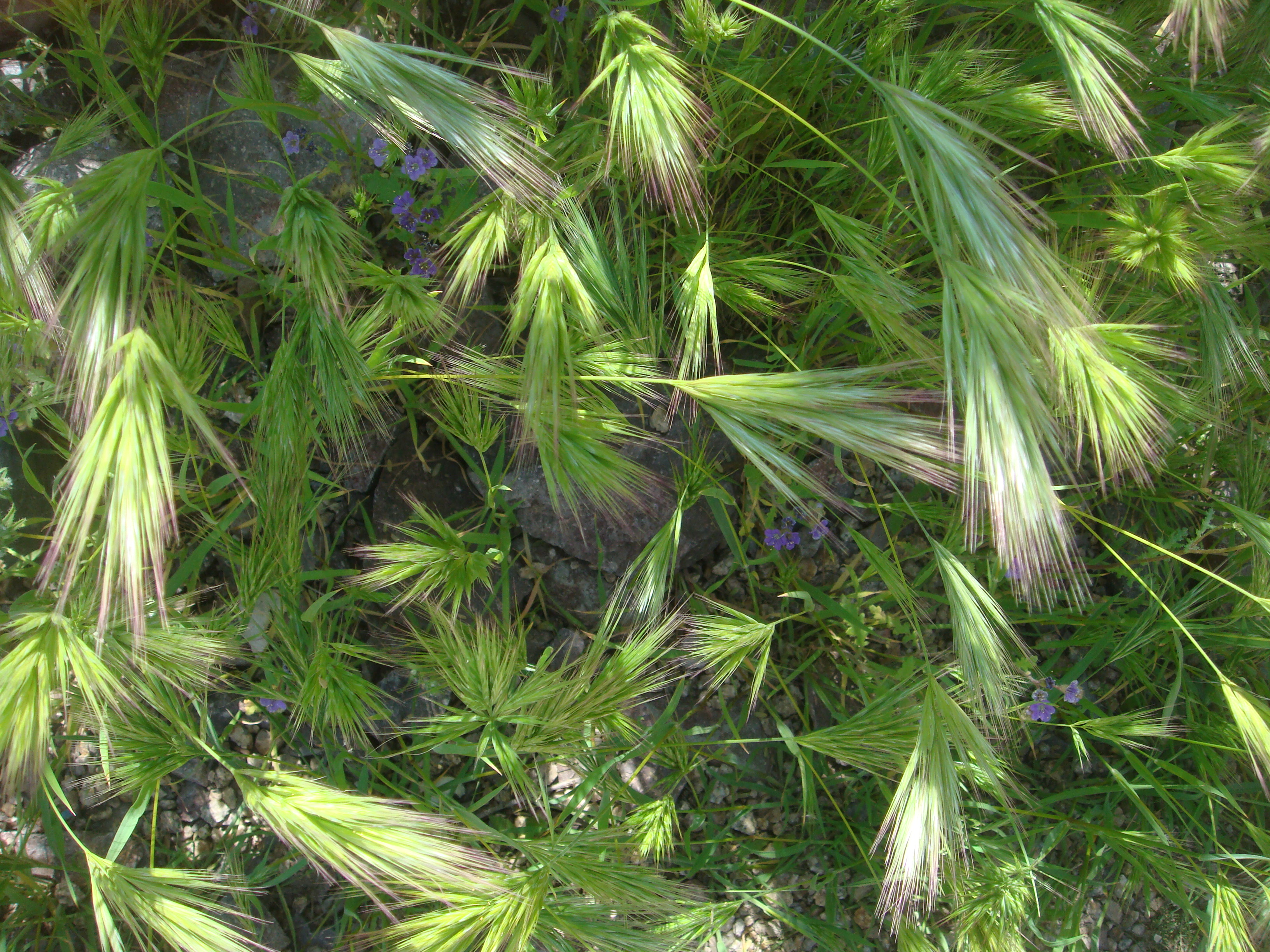 Bromus rubens, Arizona State University, Tempe, Arizona (Arboretum Park)